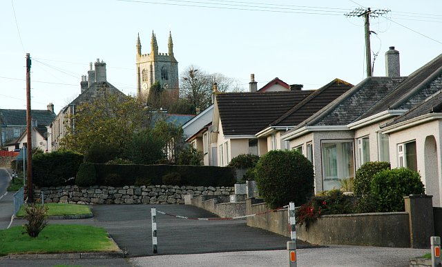 St Stephen. St Stephen is a large village a few miles to the west of St Austell. The parish is officially known as "St Stephen in Brannel".